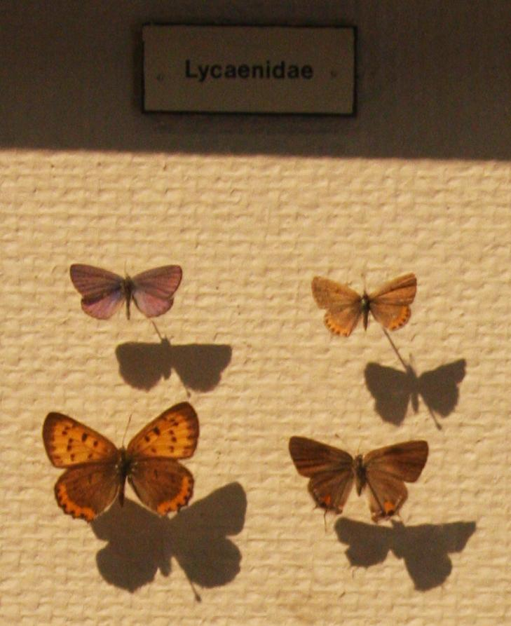 Lycaenidae specimens, University of Oslo: Zoological Museum.